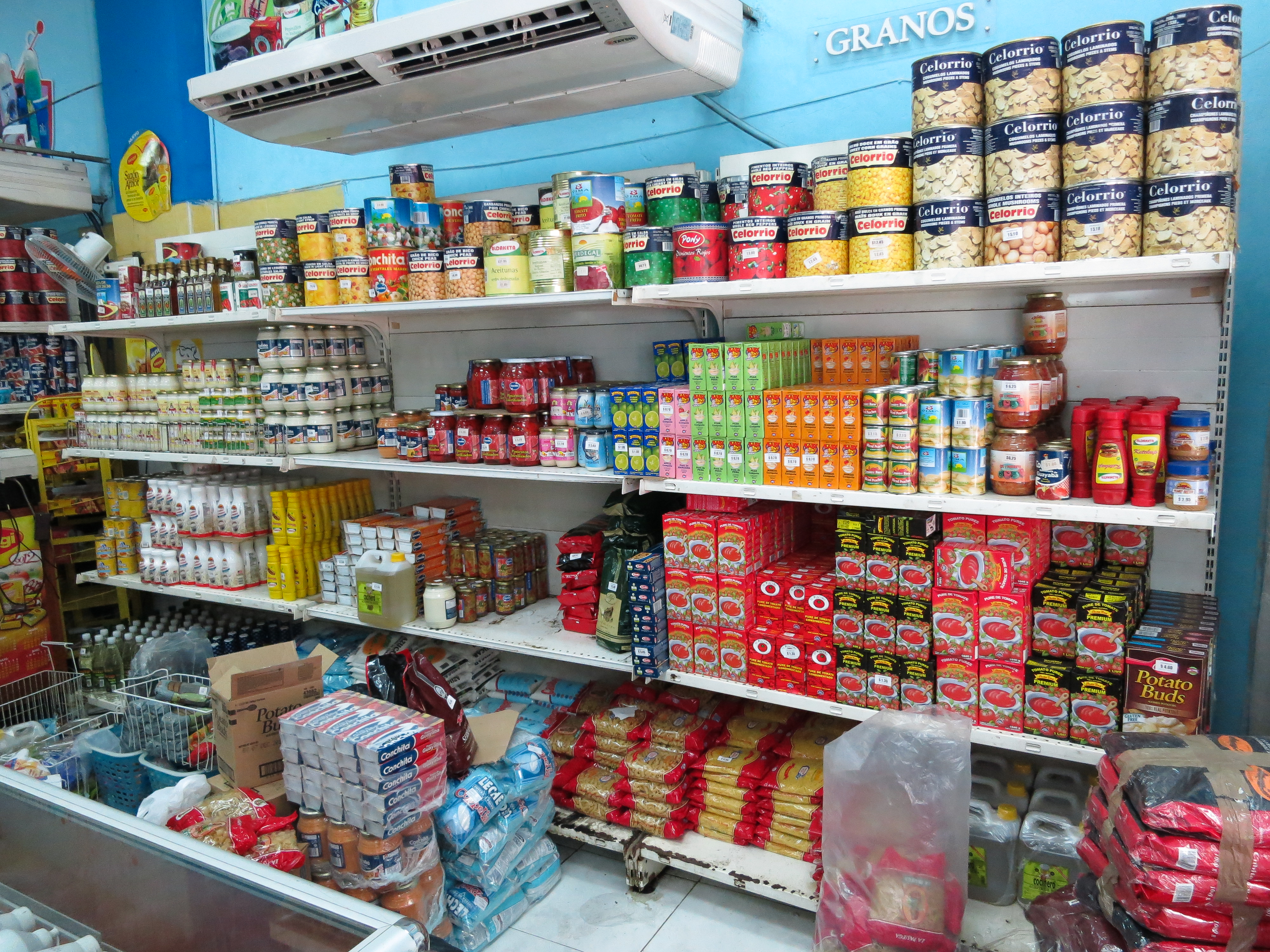 CUC-Store in Havana, Cuba.